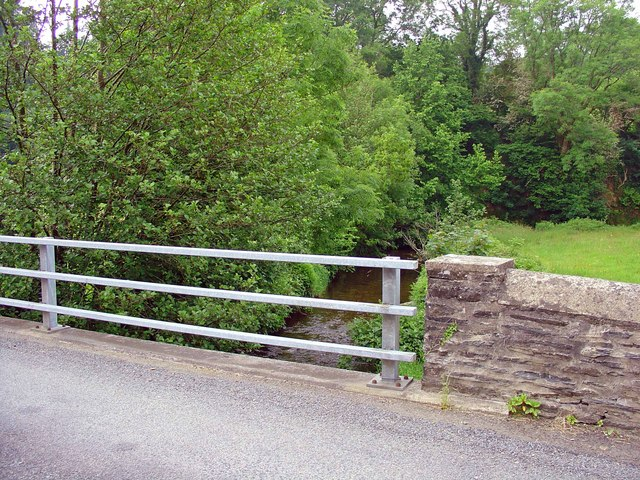 Bridge over Afon Grannell, Capel Sain Silin, Llanwnnen